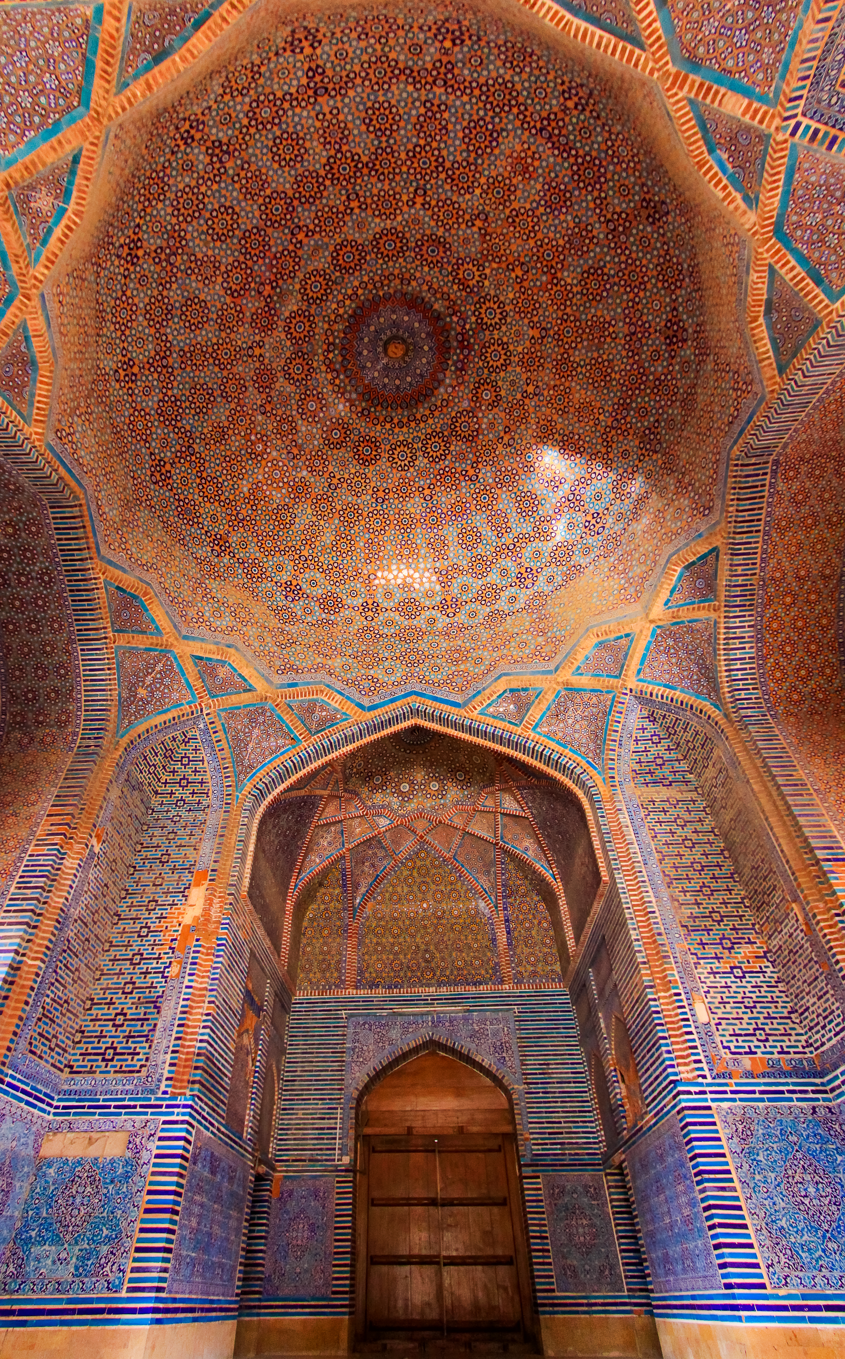 Shah Jahan Mosque, Thatta This is a photo of a monument in Pakistan identified as the SD-90